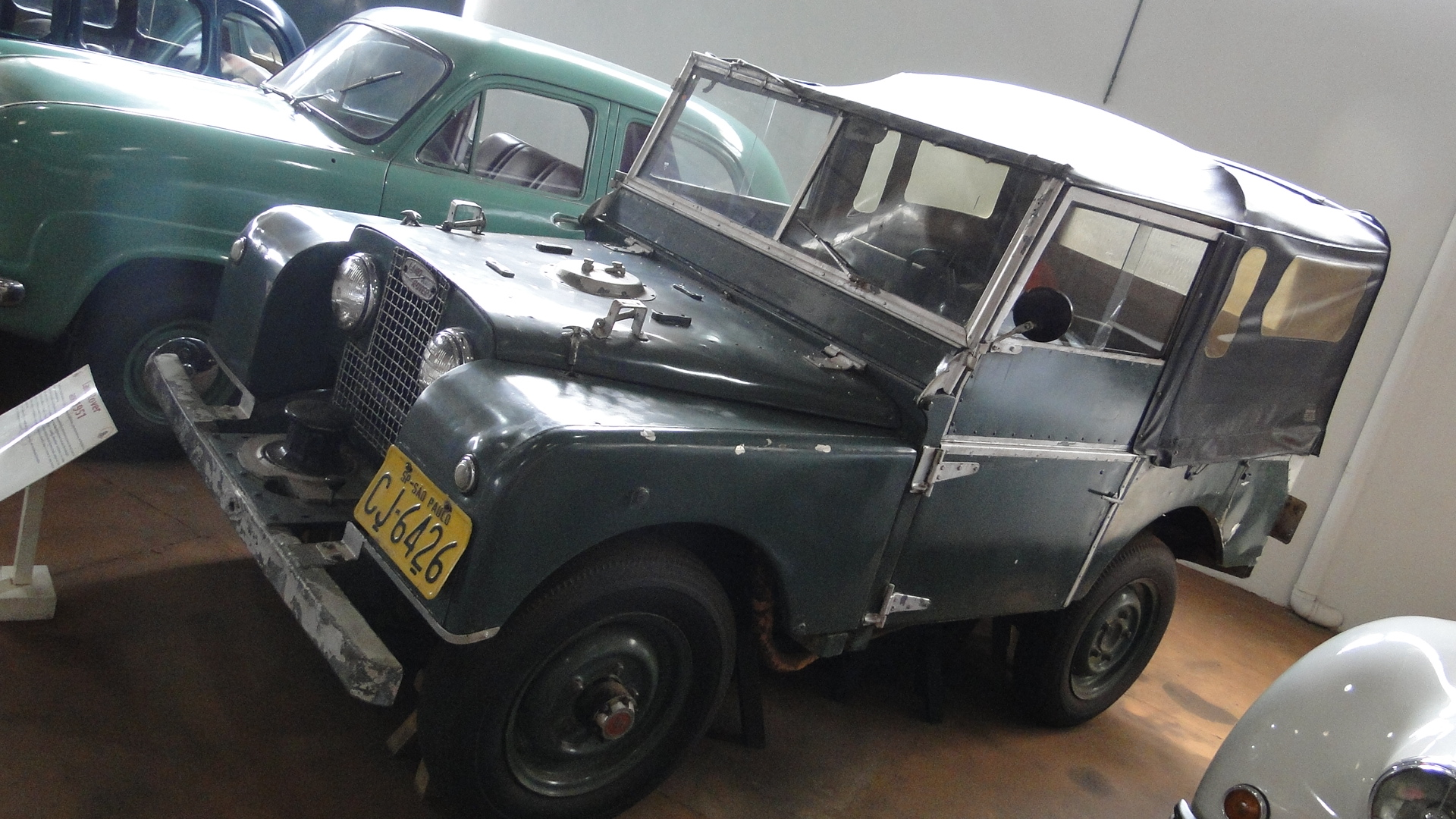 Land Rover, ano 1951.